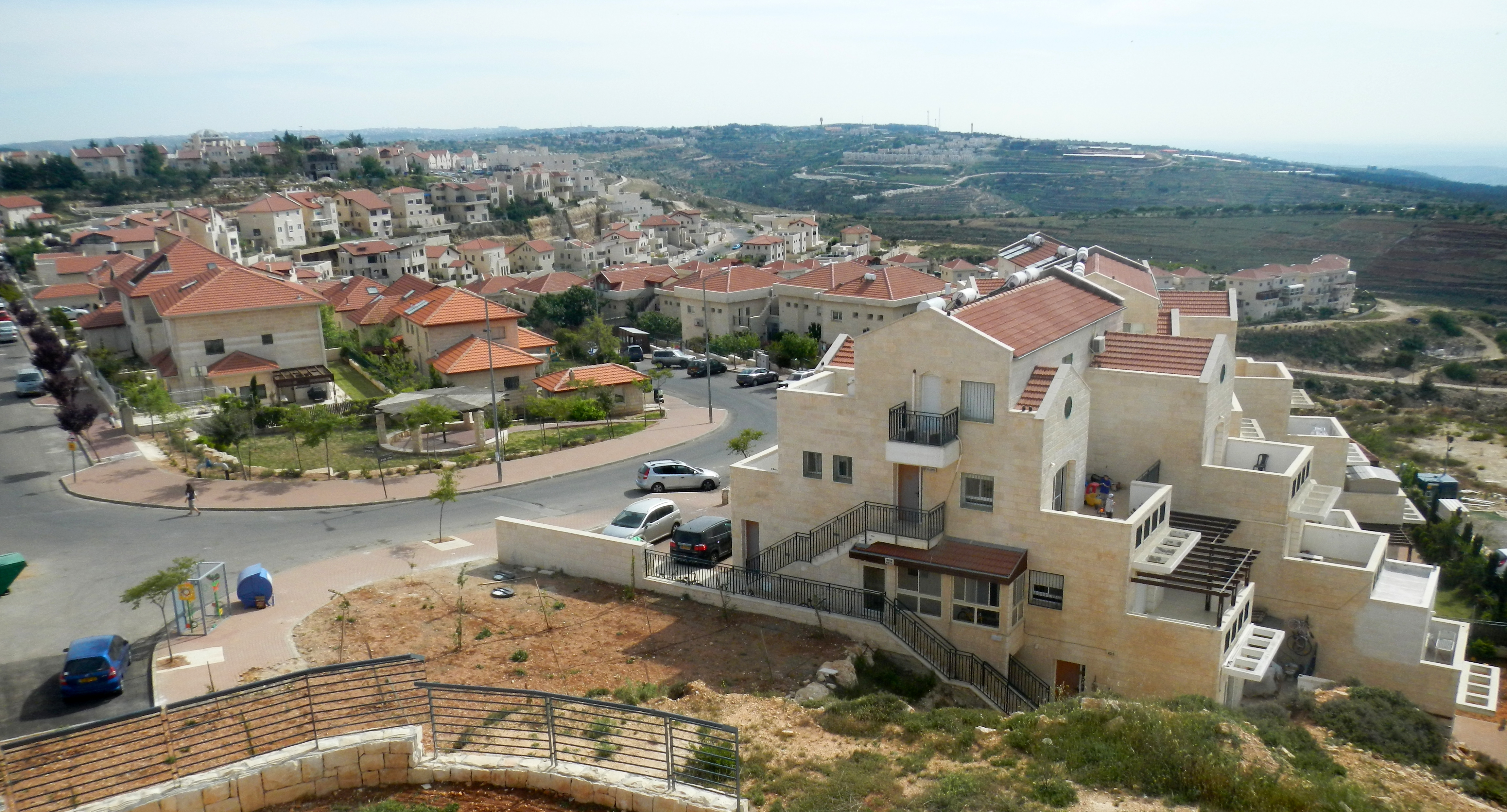 Newe Daniel, a West Bank settlement. (Alt. spelling: Neve Daniel.)